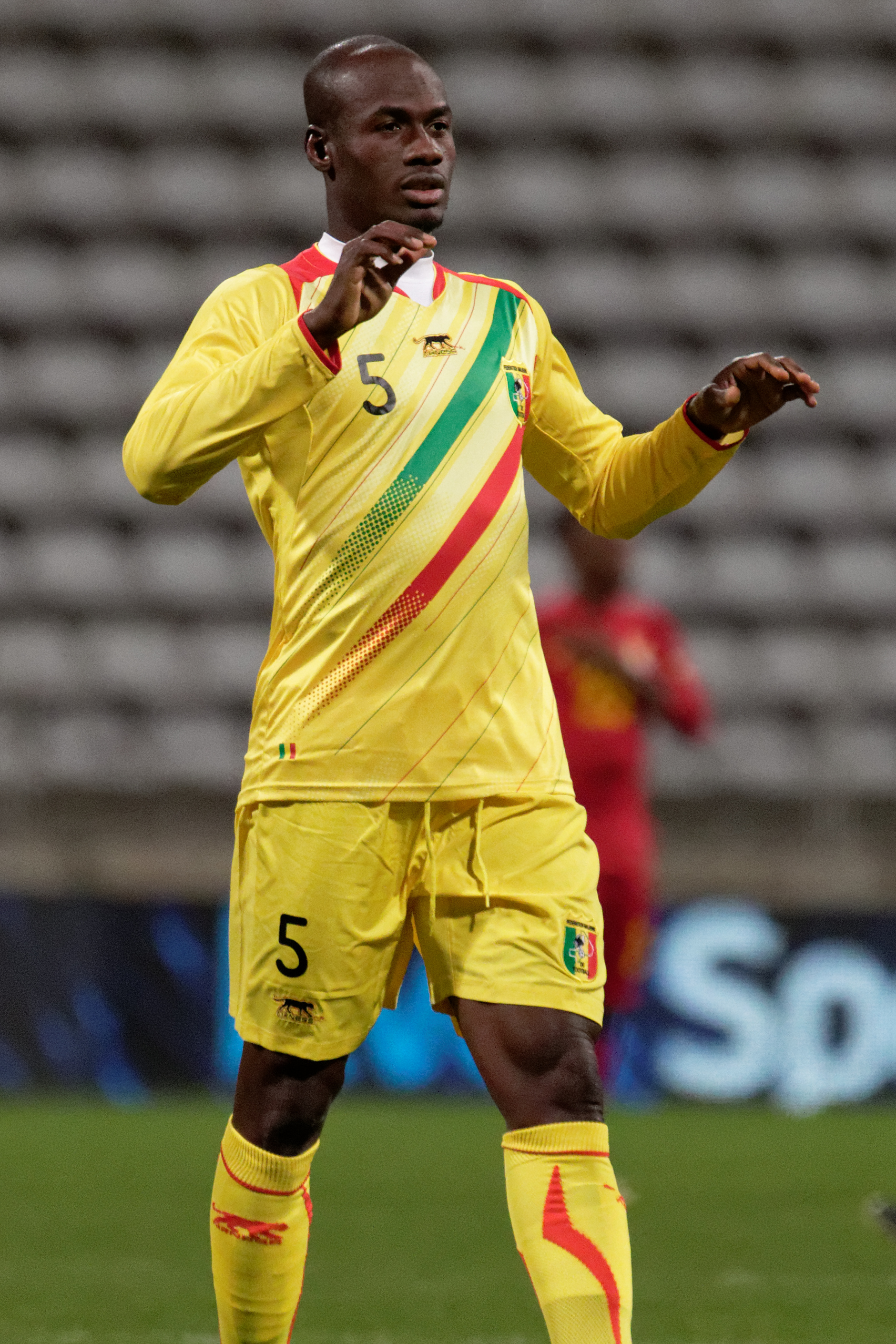 Mali vs Ghana, exhibition game at Paris, 31st March 2015.